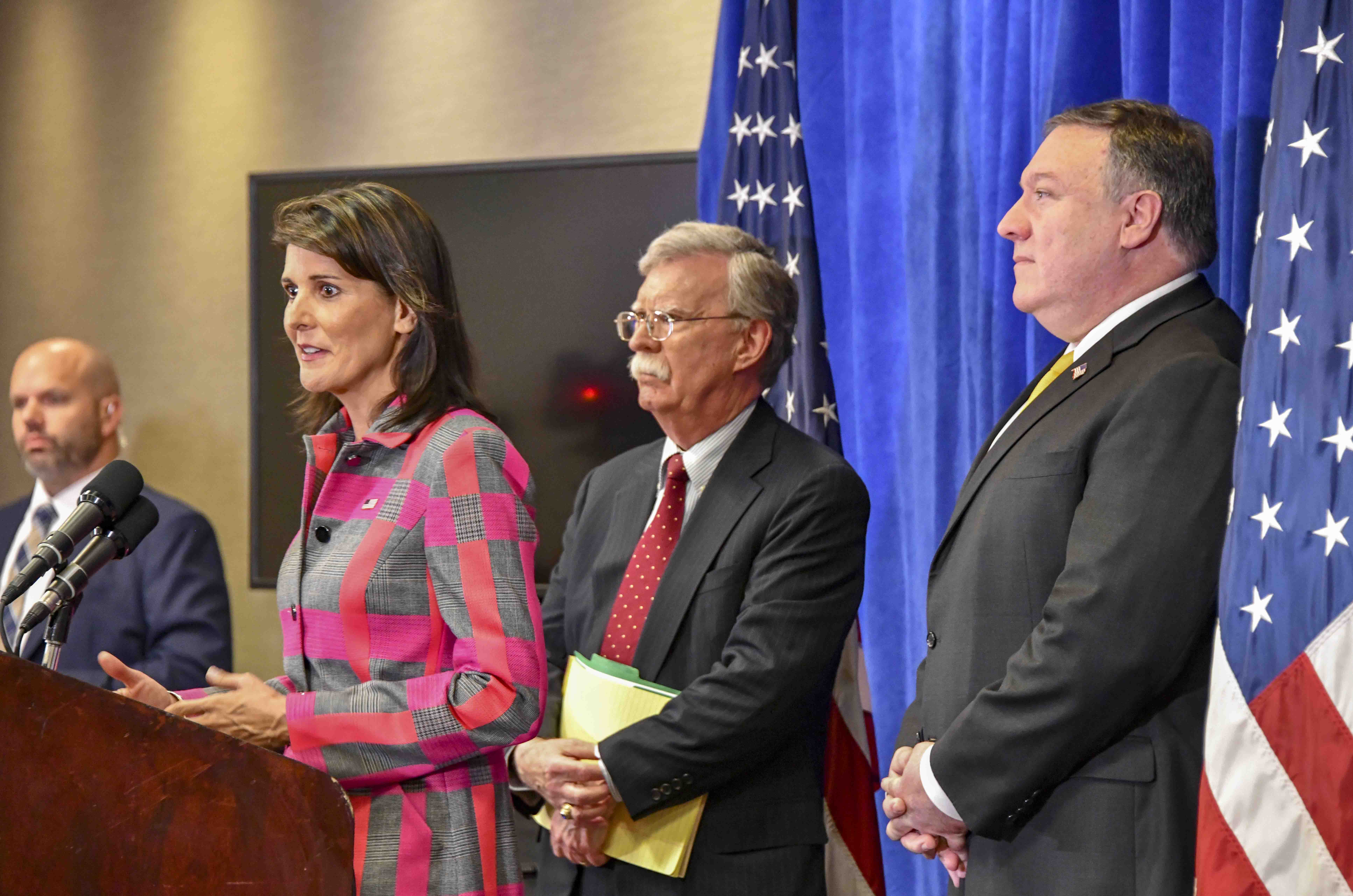 Secretary of State Mike Pompeo participates in a joint press conference with Ambassador Nikki Haley and National Security Council Advisor John Bolton, on the margins of the 73rd Session of the United Nations General Assembly, in New York City on September 24, 2018. [State Department photo/ Public Domain]